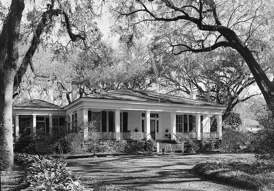 Front of Georgia Cottage, a.k.a. the Hardaway-Evans-Wilson-Sledge House, located at 2564 Springhill Avenue in Mobile, Alabama, United States. Built in 1840, this Greek Revival house is listed on the National Register of Historic Places.